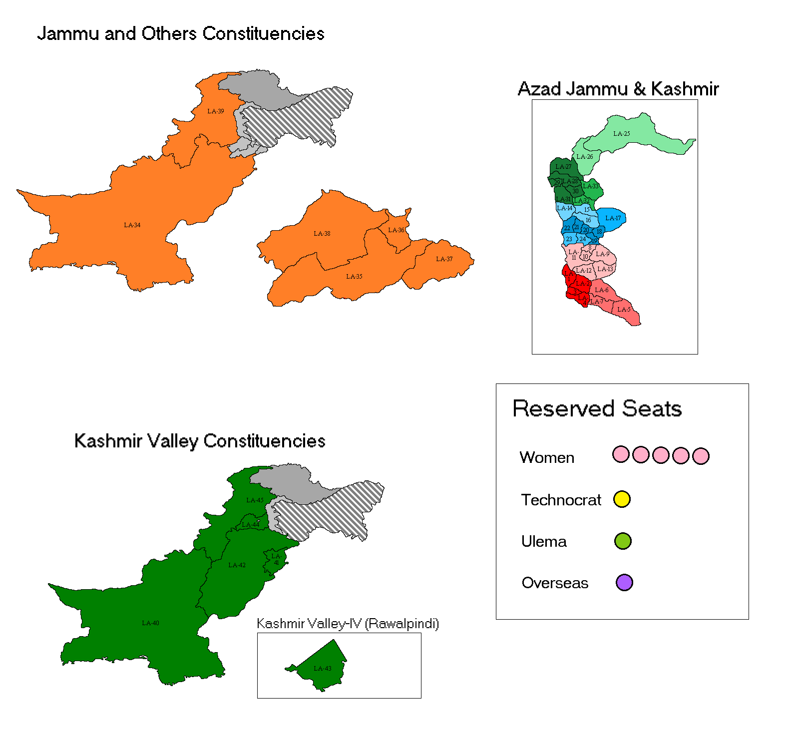 Map of Azad Kashmir showing Assembly Constituencies There are 29 constituencies in Azad Kashmir 12 constituencies are located in Pakistan out of which 6 are reserved for immigrants from Occupied Jammu and Ladakh region and rest of 6 are reserved for immigrants from Occupied Kashmir valley and settled in Pakistan.